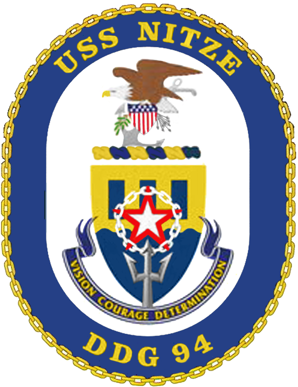 Emblem of the USS Nitze (DDG-94)